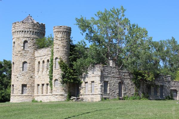 City Workhouse Castle, 2014. Built in 1897 located on 18th and Vine St. Kansas City, MO.